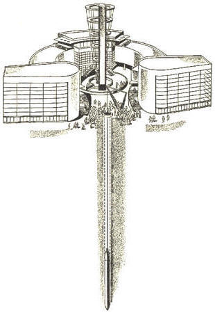 sketch of the Westinghouse 1939 exhibit with Time Capsule burying place